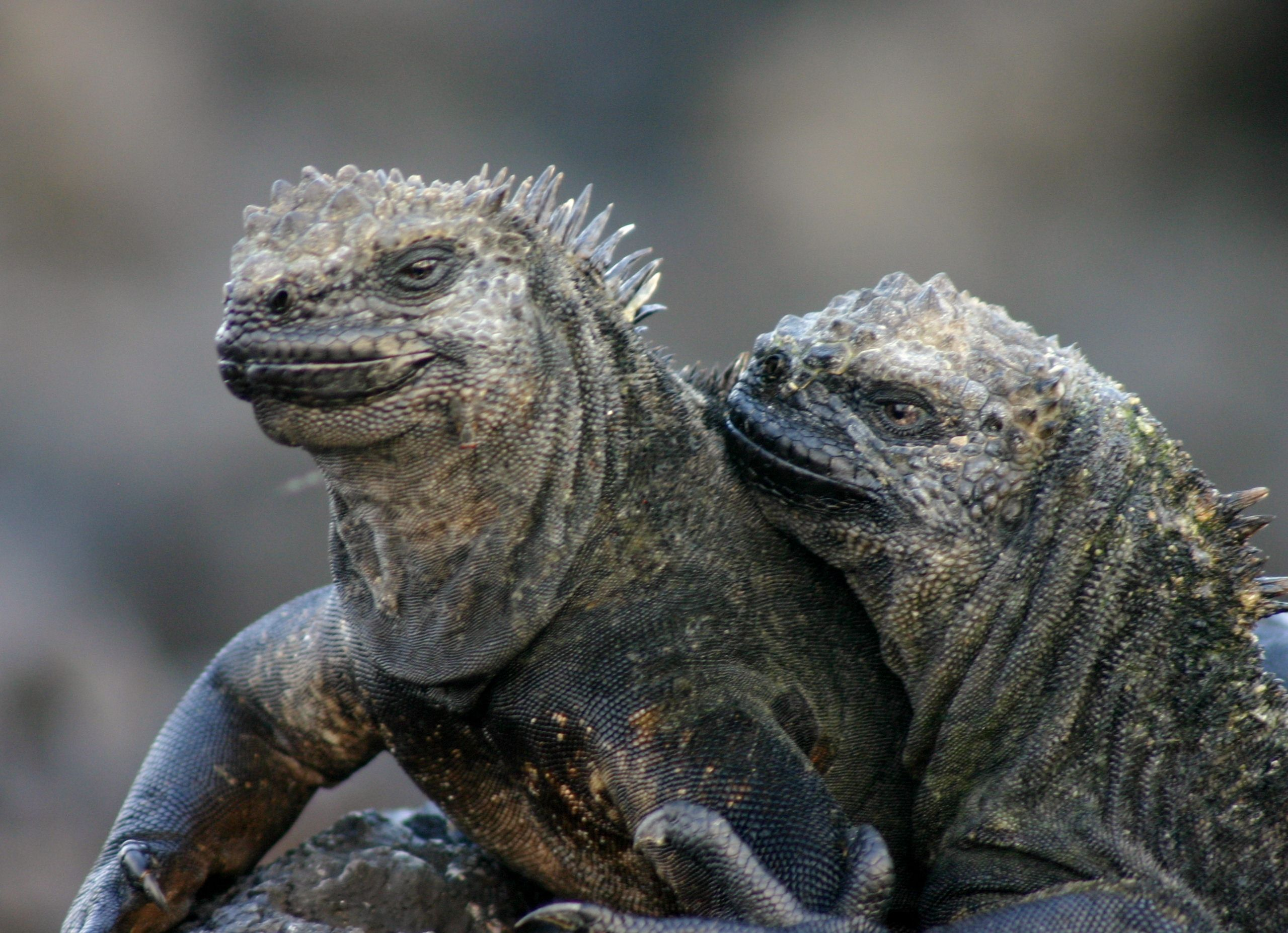 Galápagos marine iguana (Amblyrhynchus cristatus albemarlensis). Photograph taken on Isabela Island using Canon EOS300D and Canon 300mm Image Stabilizer EF lens with Skylight 1A filter.